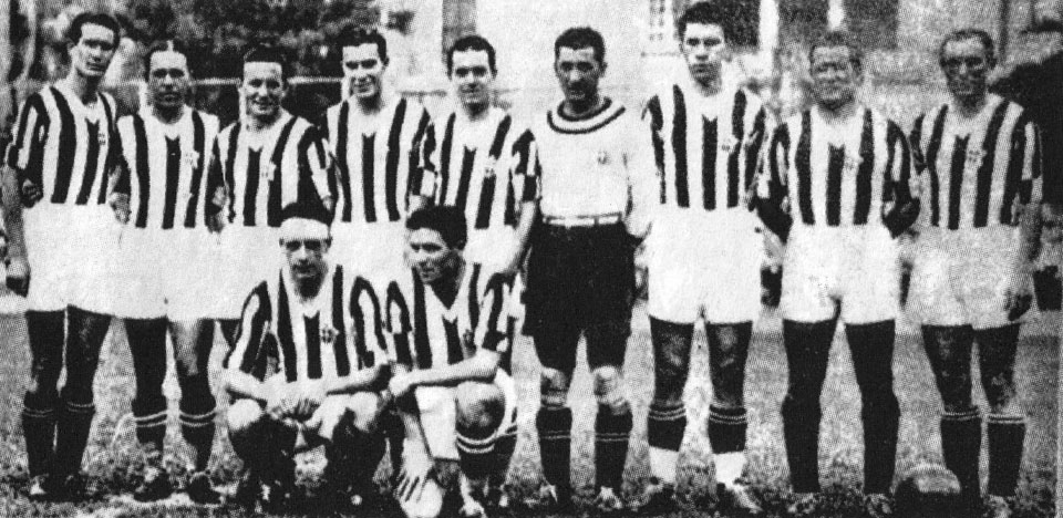 A line-up of F.B.C. Juventus in the 1935–36 season. From left to right, standing: G. Varglien (II), V. Rosetta, P. Serantoni, F. Borel (II), G. Prendato, E. Staccione, A. G. Borel (I), L. Monti, M. Varglien (I); crouched: L. Bertolini, A. Foni.